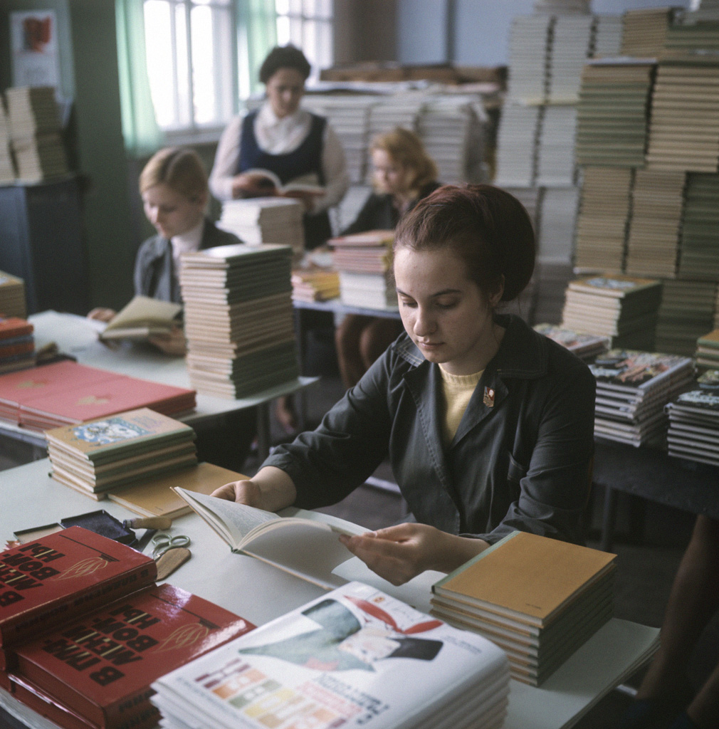 “Kalinin Children's Literature Printing and Publishing Works”. Employees of the Kalinin Children's Literature Printing and Publishing Works at work.